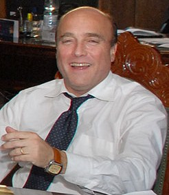 Daniel Martinez, Industry Minister of Uruguay 2008-2009, Senator 2010-2015, Mayor of Montevideo since 2015.